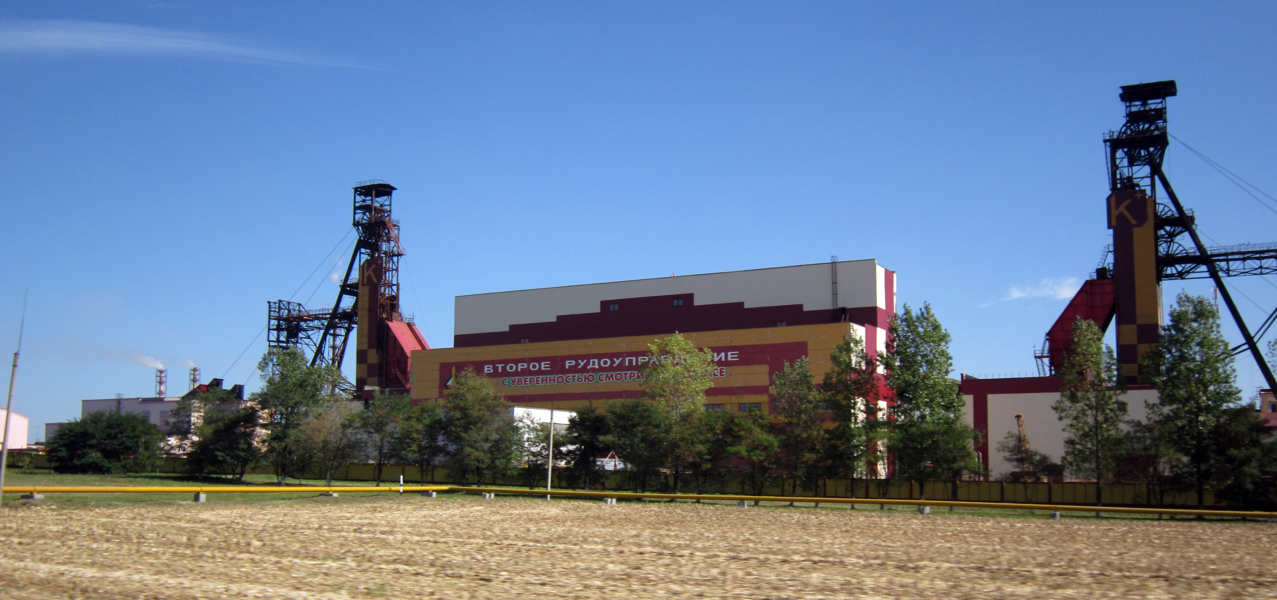 Potash Mine in Salihorsk (Soligorsk) in Belarus